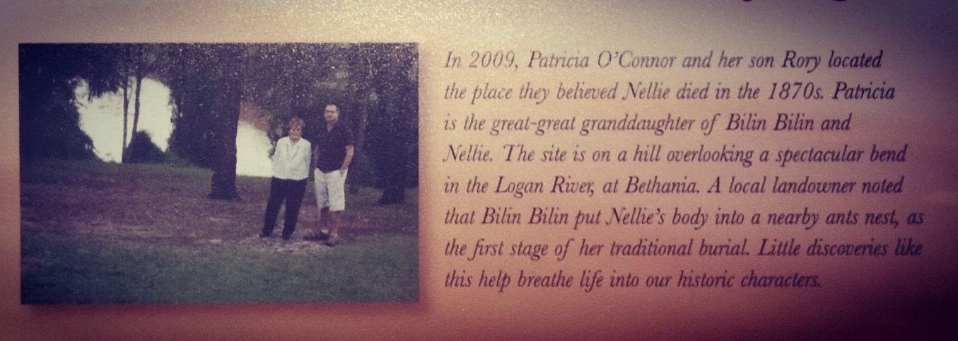 Photo of exhibition - Bilin Bilin panel re: burial of Nellie in ant's nest